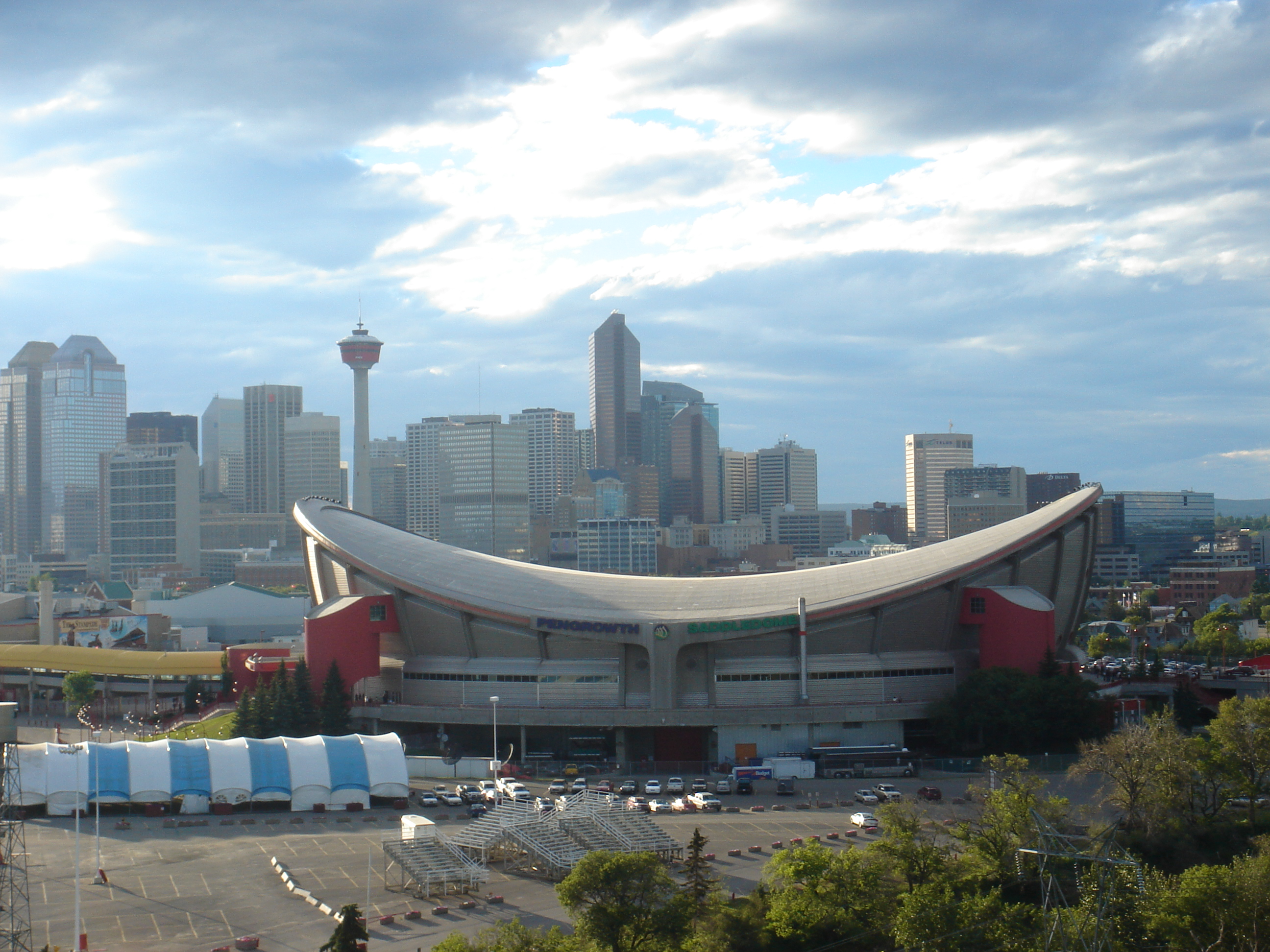 Calgary skyline and Pengrowth Saddledome, July 23, 2005 Photo by: JamesTeterenko